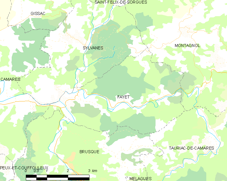 Map commune FR insee code 12099.png - Fayet (Aveyron)